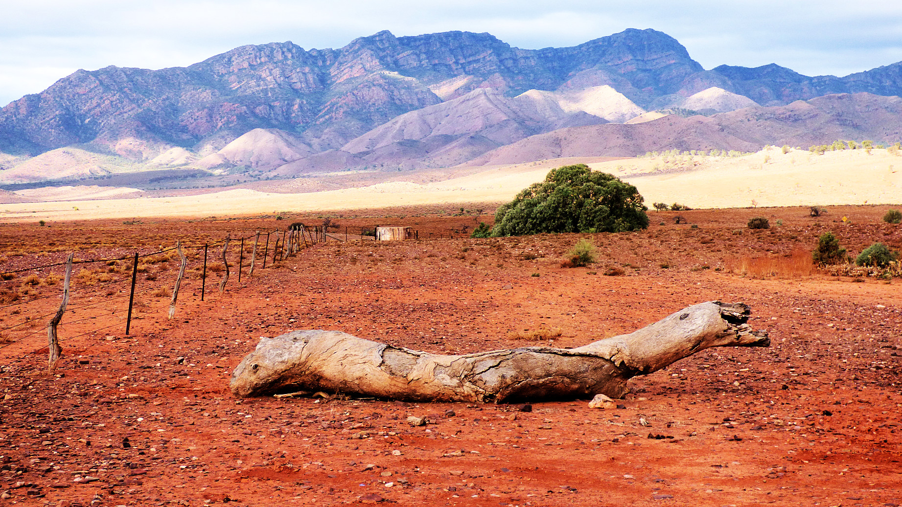 Razorback Lookout, Ikara-Flinders Ranges National Park.